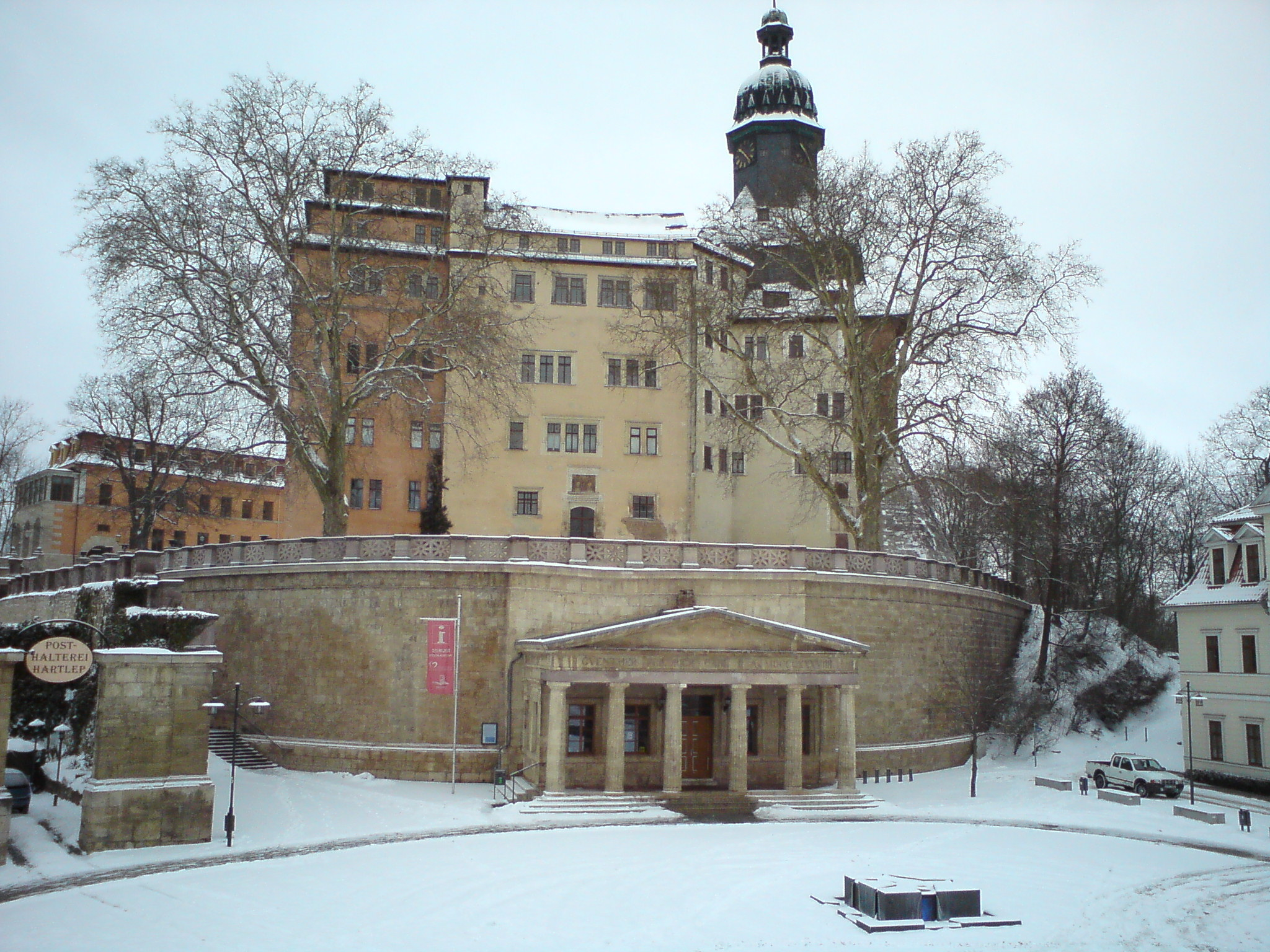 Sondershausen Palace and marketplace